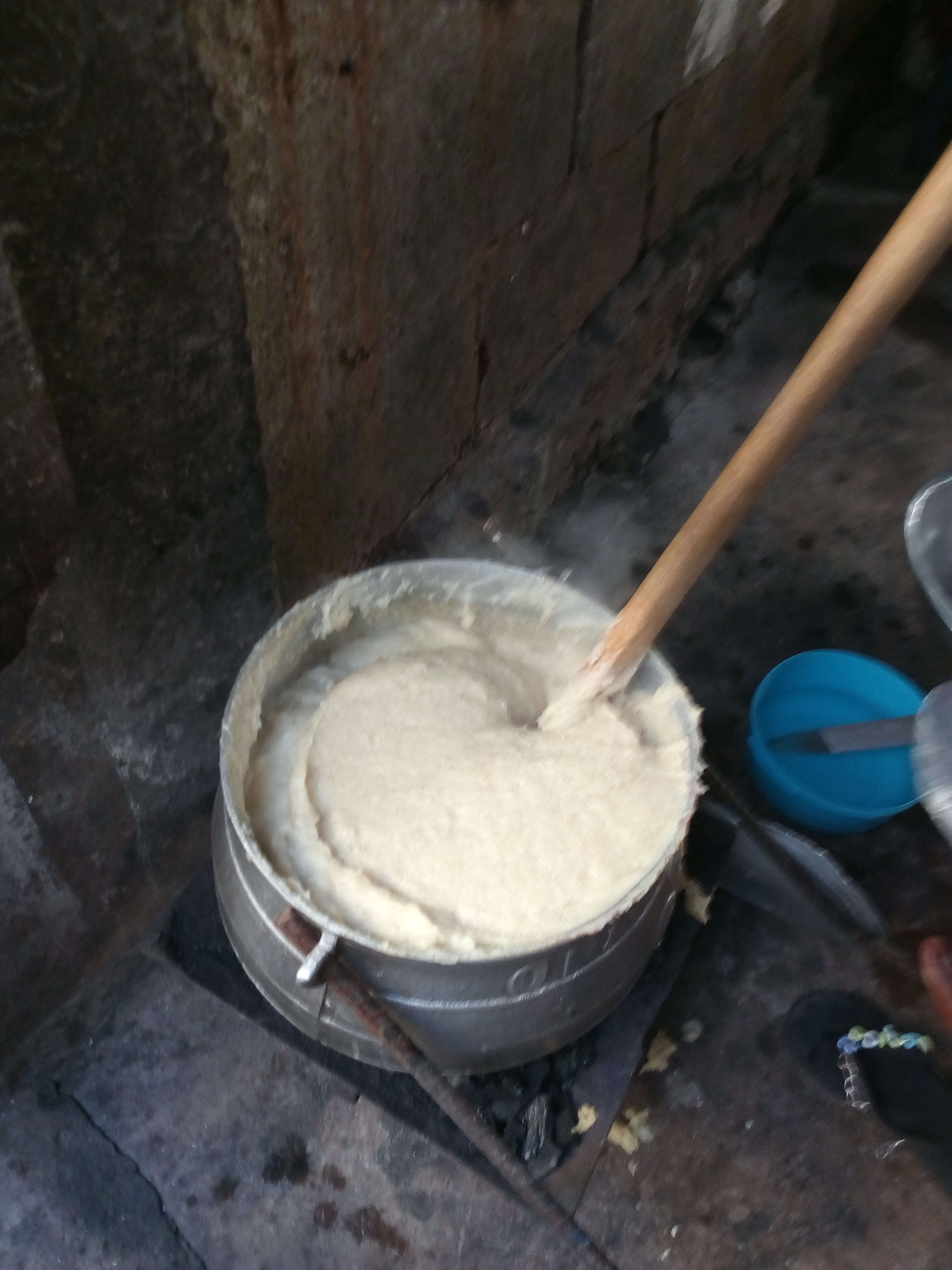 Banku on fire